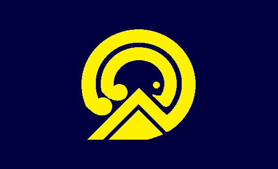 Flag of Awashima Niigata